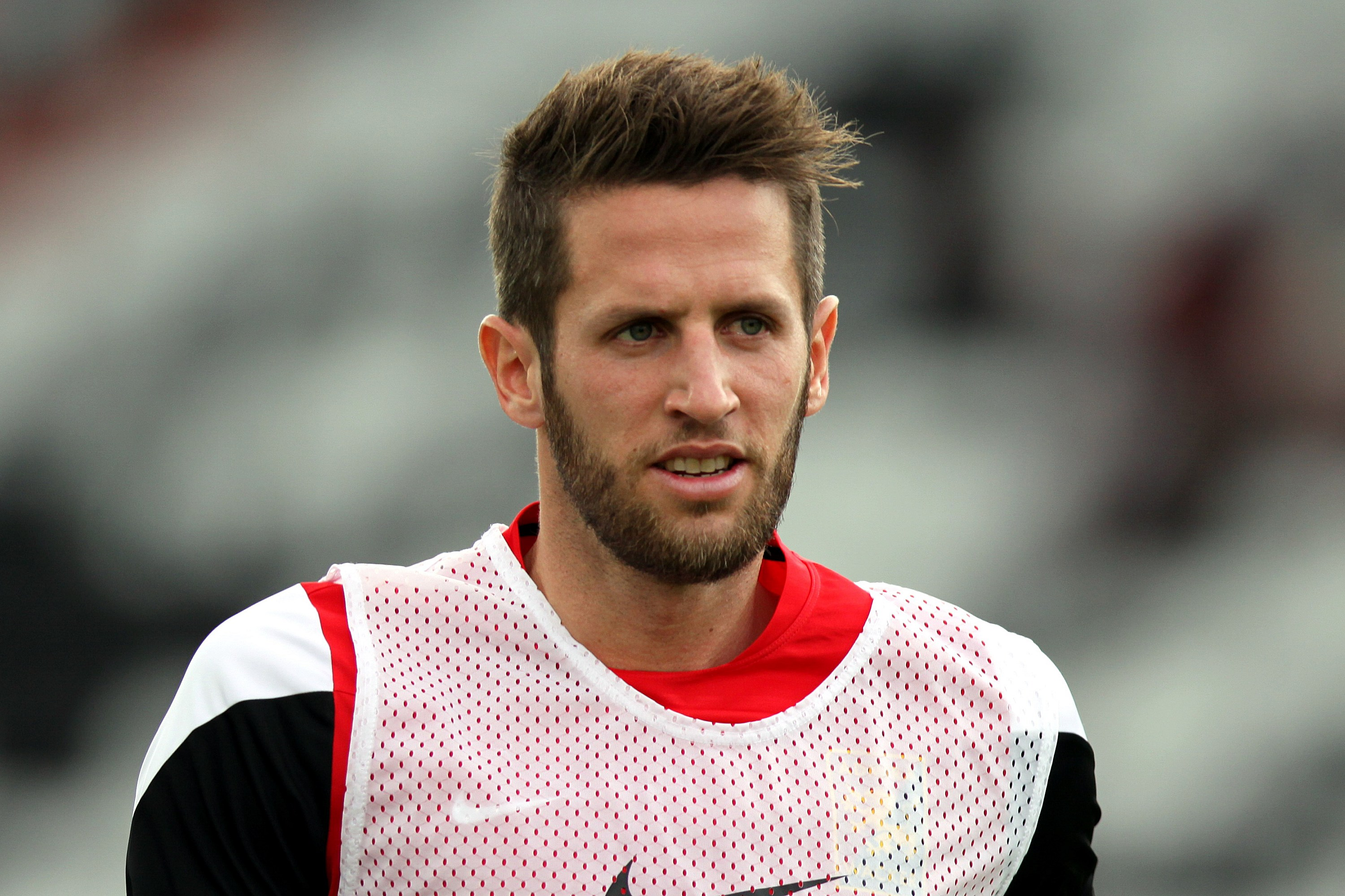 Match of the Austrian Football Bundesliga – FC Admira Wacker Mödling (red shirts) vs. SK Sturm Graz (white shirts) 0-1 (0-0) on 2015-09-27 in Bundesstadion Sudstadt – The photo shows Christoph Schösswendter (FC Admira Wacker Mödling)